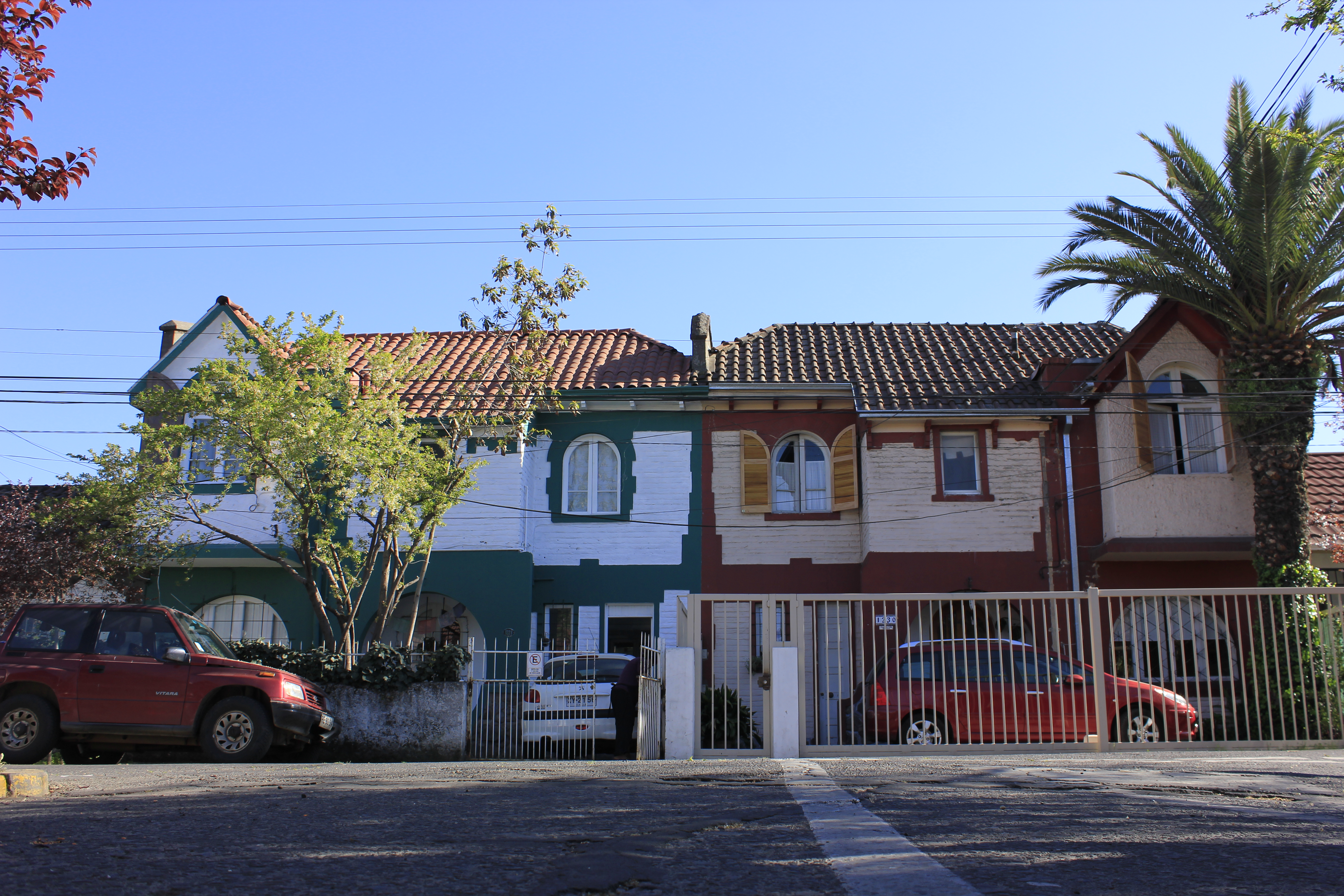 This is a photo of a national monument in Chile: 245